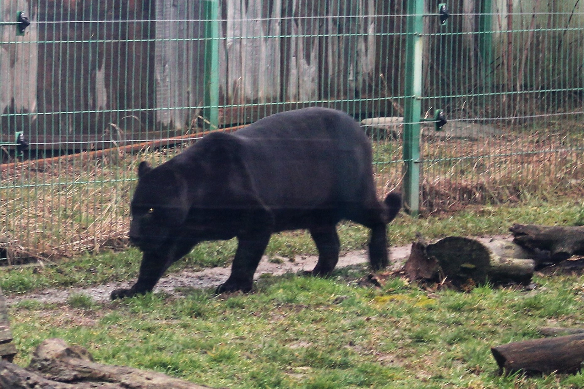 Jaguar (Panthera onca) in Nagyvárad Zoo, Transylvania.